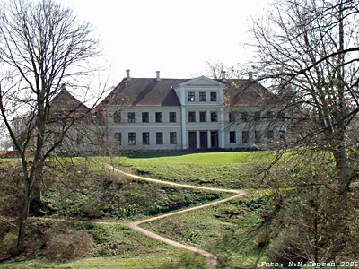 Vilhelmsborg near Århus, Denmark Vilhelmsborg. The estate is designed by architect C.G.F. Thielemann